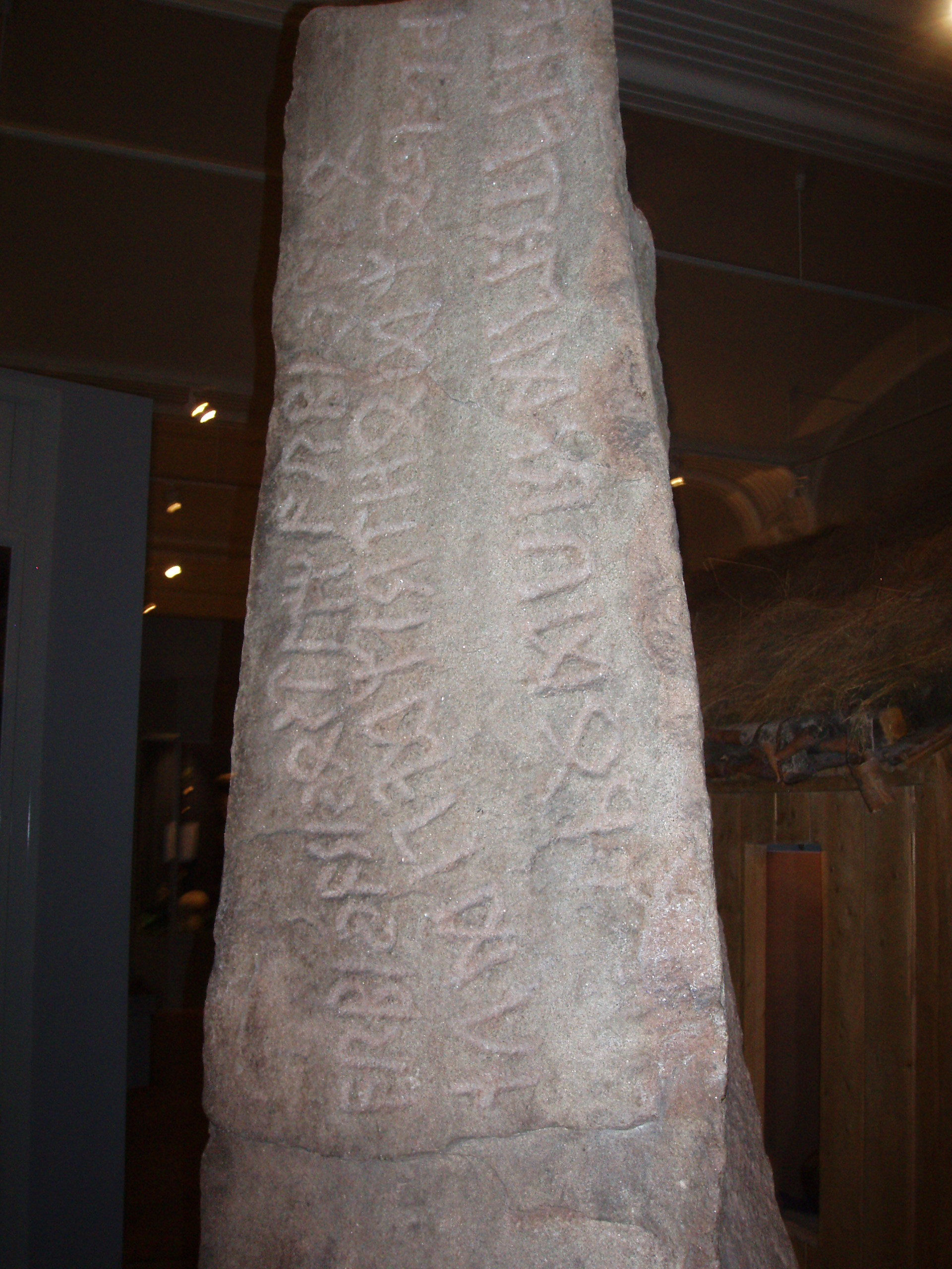 One side of the Tune runestone, as displayed in the Museum of Cultural History in Oslo, Norway. According to the object display the stone was raised by Sarpsfossen (a waterfall) around the year 400 CE.